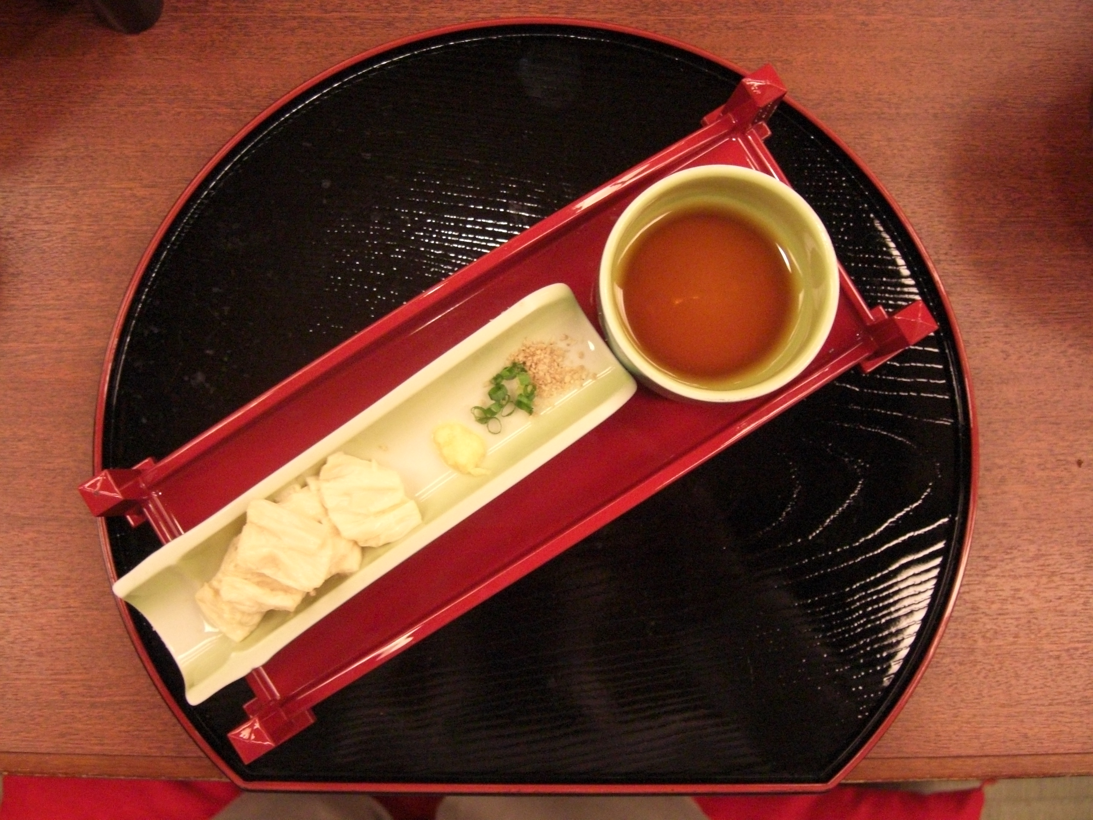 An example of "Yuba" food